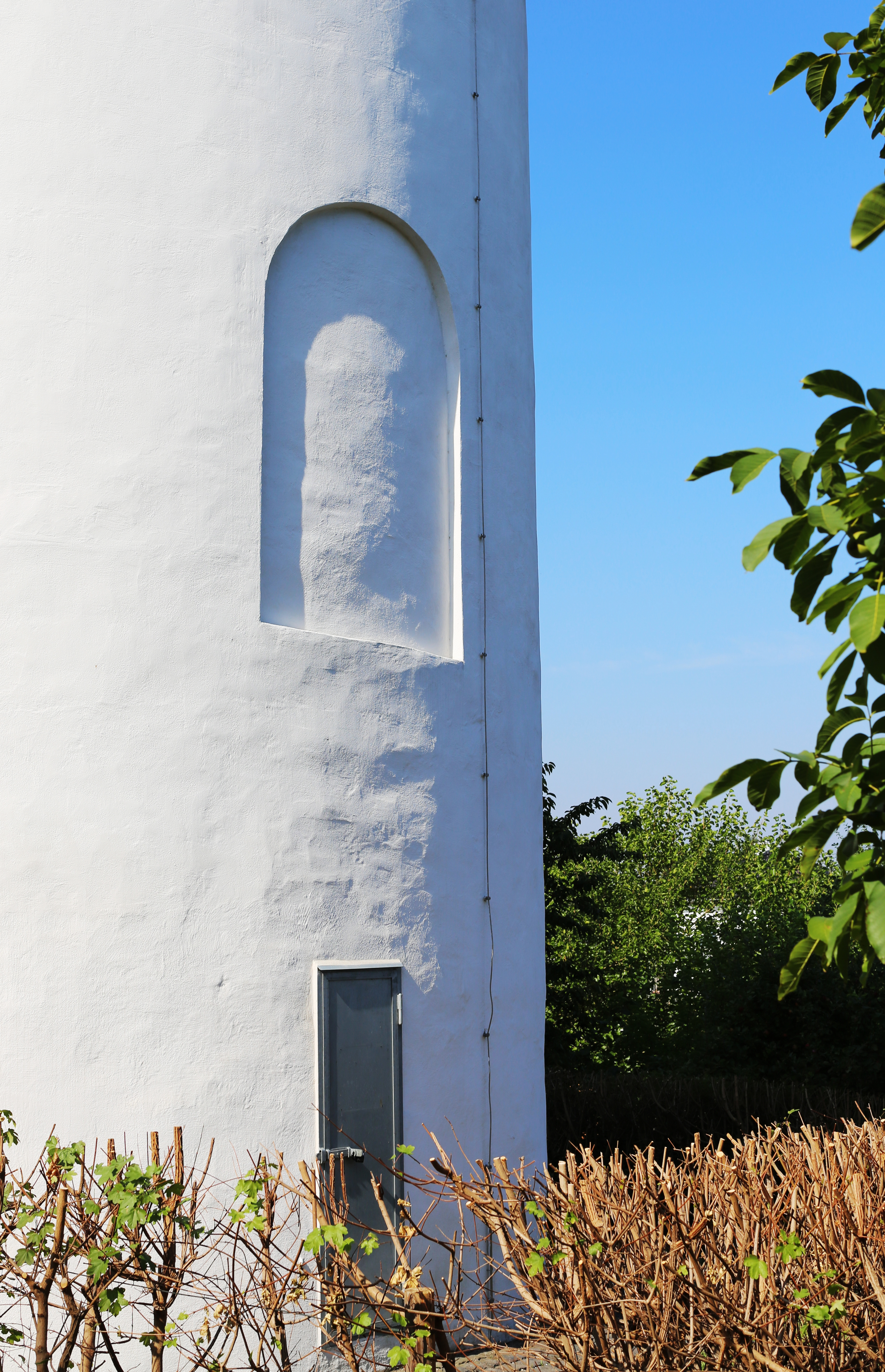 Early middle ages residence tower, at a later date named „Witchtower of Walberberg“